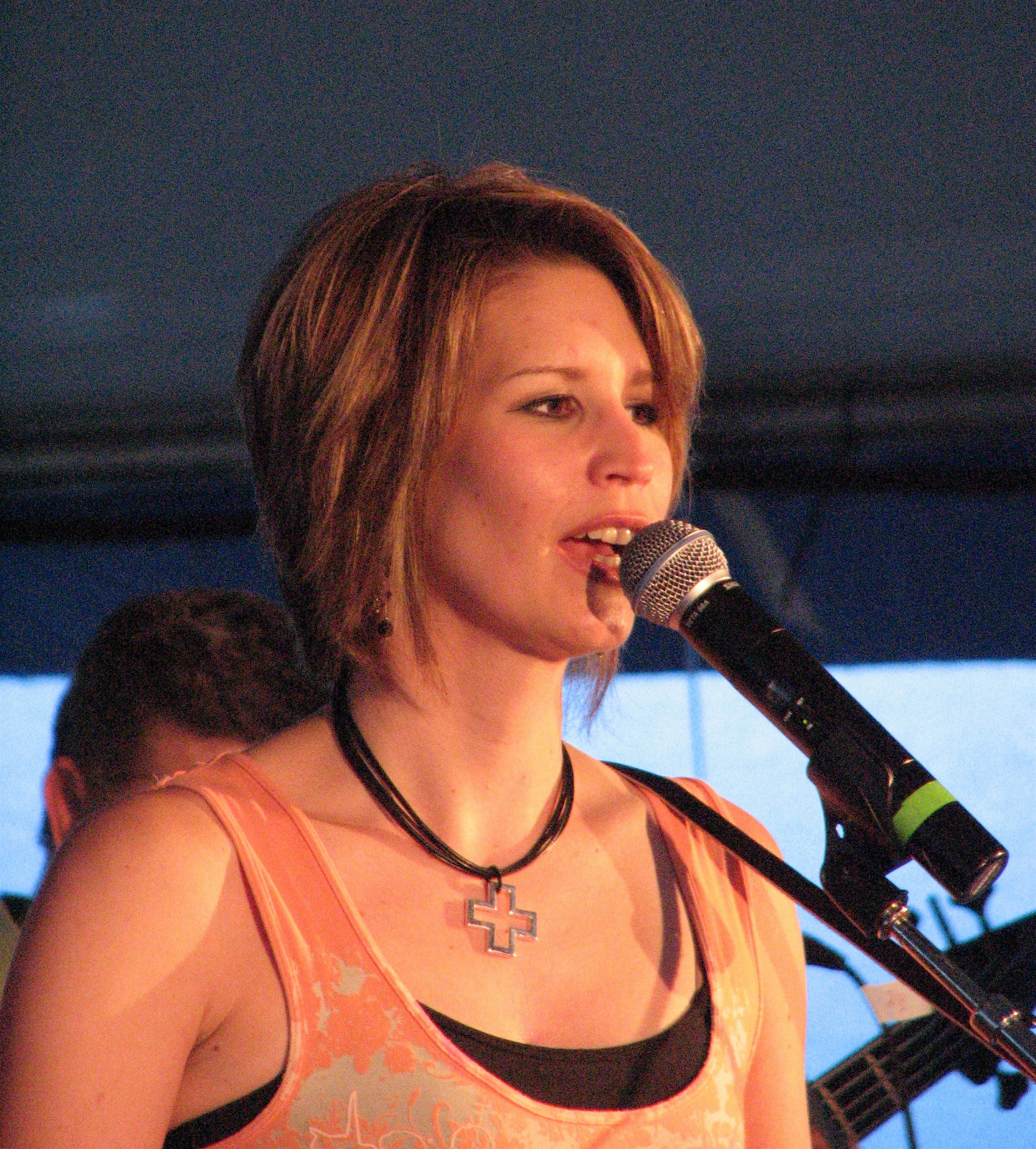 Canadian born country singer Lisa Brokop performing on stage at the Blue Mountain music festival in mid-July 2006. She is now married to fellow US country singer Paul Jefferson.